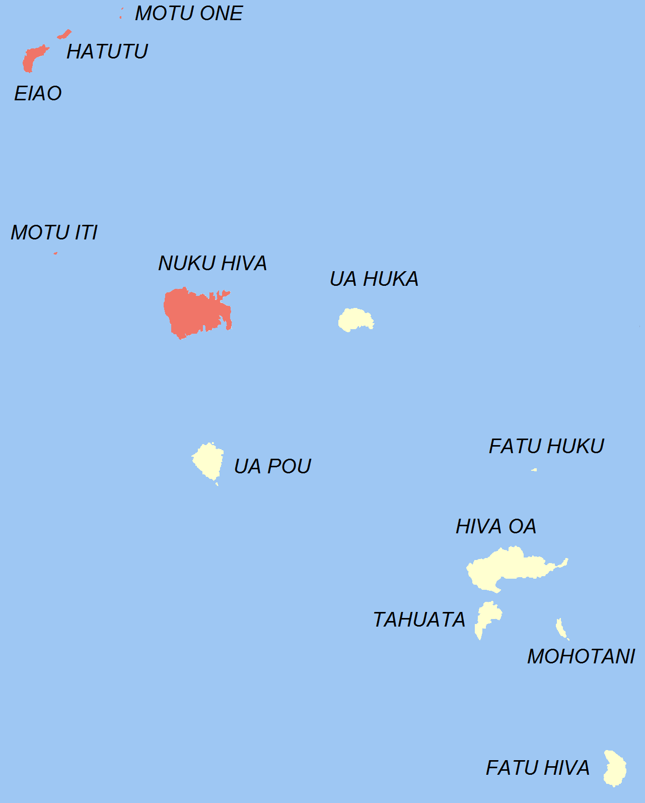 Map of the commune of Nuku-Hiva, made by myself.